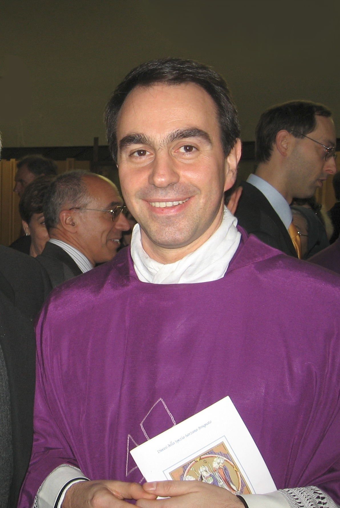 msgr. Ettore Balestrero